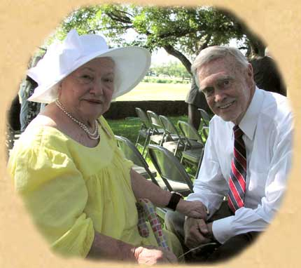 Liz Carpenter, former press secretary for Lady Bird Johnson, and Cactus Pryor at the August 27, 2003 wreath laying ceremony marking the 95th anniversary of Lyndon B. Johnson's birth in Stonewall, Texas.